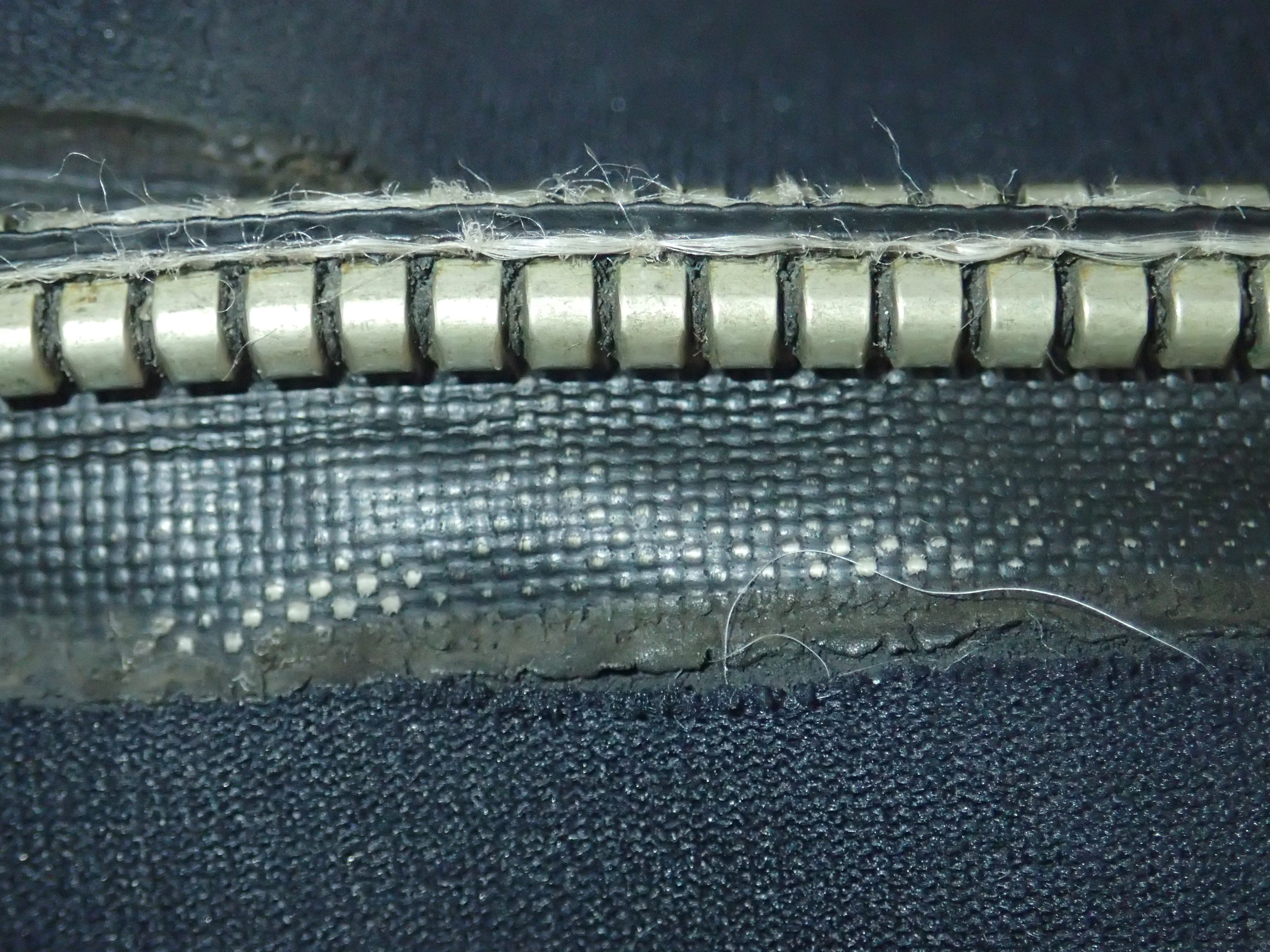 Worn dry suit zipper detail - frayed edge of zipper tape